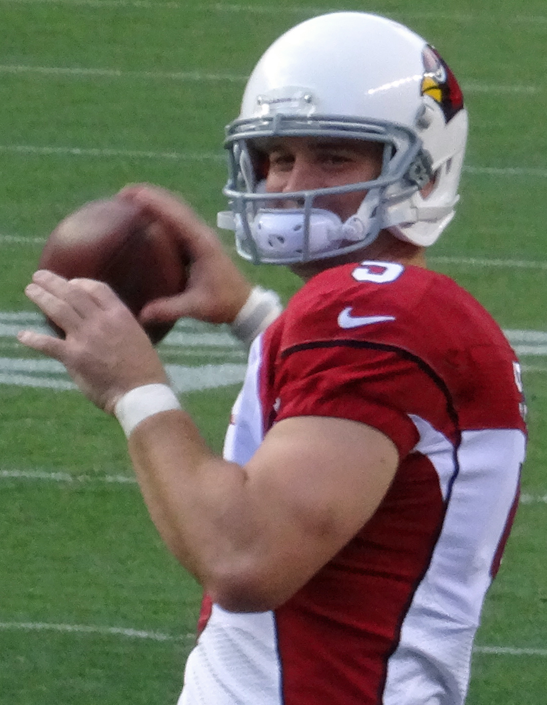 Drew Stanton, a player on the National Football League.